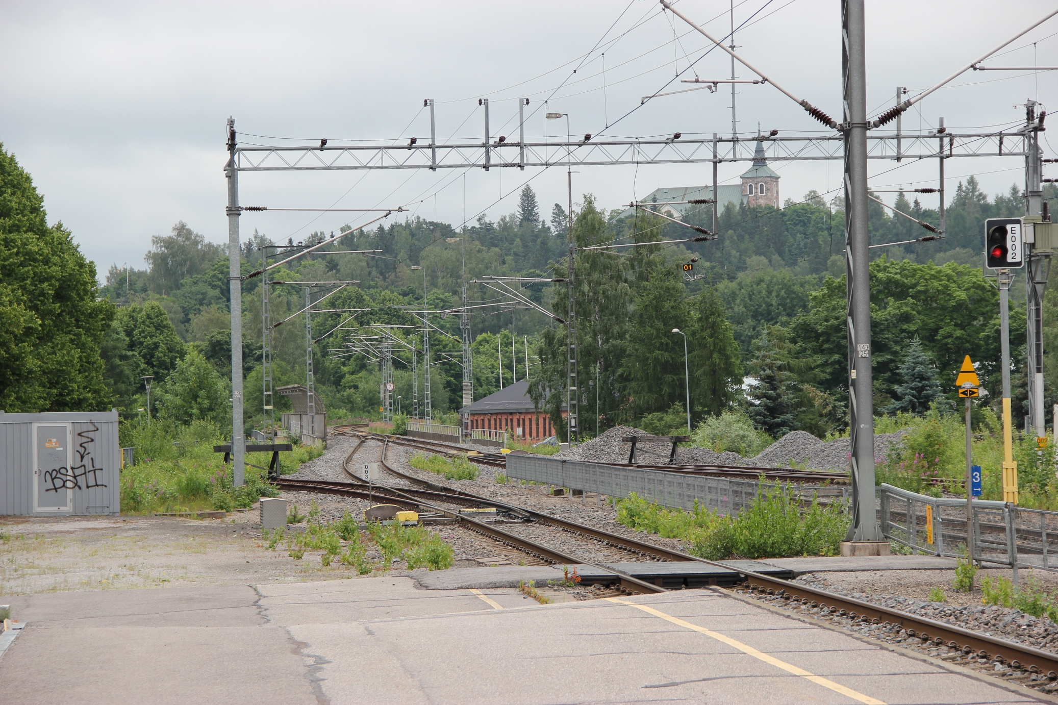 Salo station yard. Salo-Uskela Church in the background (behind the forest)